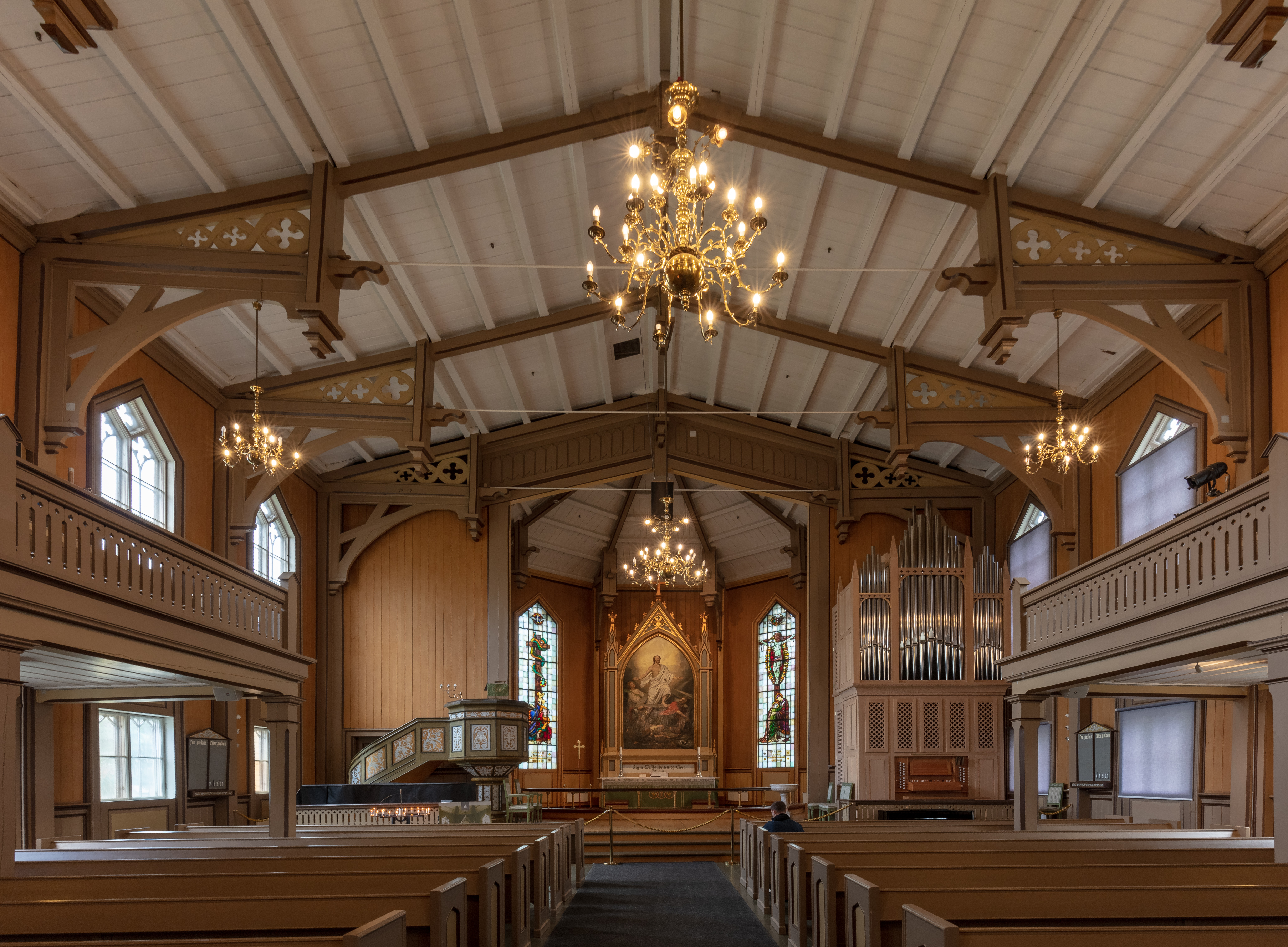 Cathedral, Tromsø, Norway